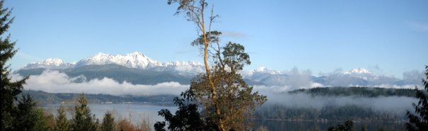 Beautiful Winter day at home